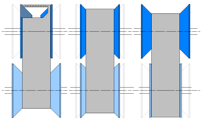 Gear box (variator)